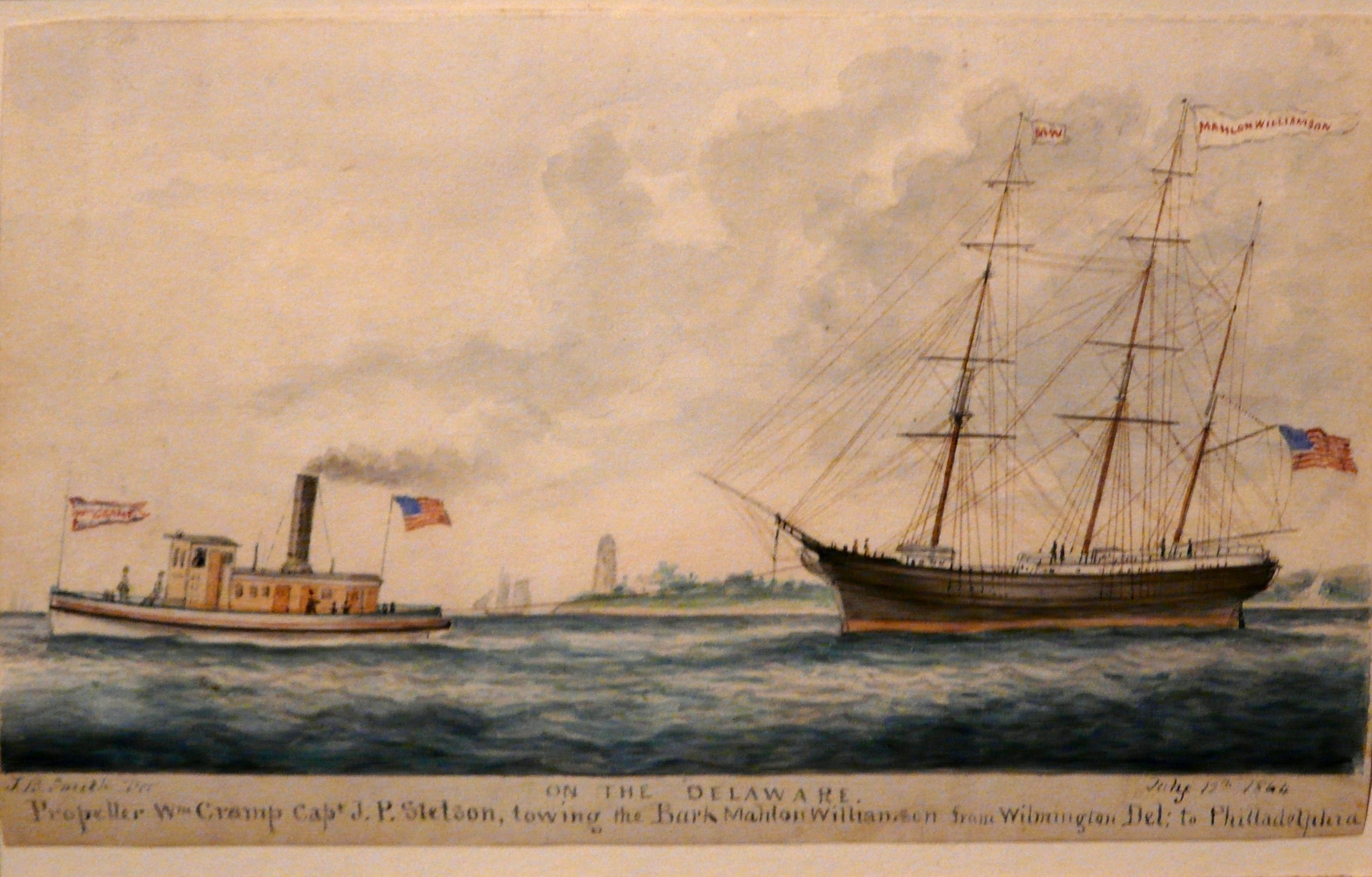 Original title" On the Delaware. Propeller Wm. Cramp Capt. J.P. Stetson, towing the Bark Mahlon Williamson from Wilmington Del. to Philadelphia." Museum caption: "Tugboat William Cramp". Watercolor on paper. Independence Seaport Museum